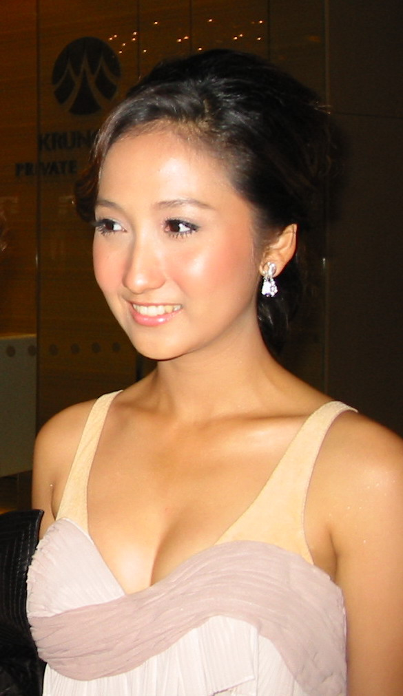 Jeab Chompoonuch at Star Entertainment Awards 2007